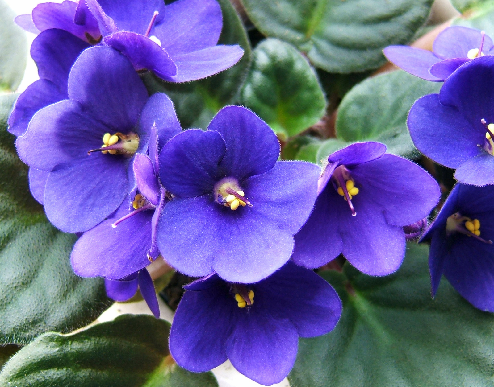 African-violet